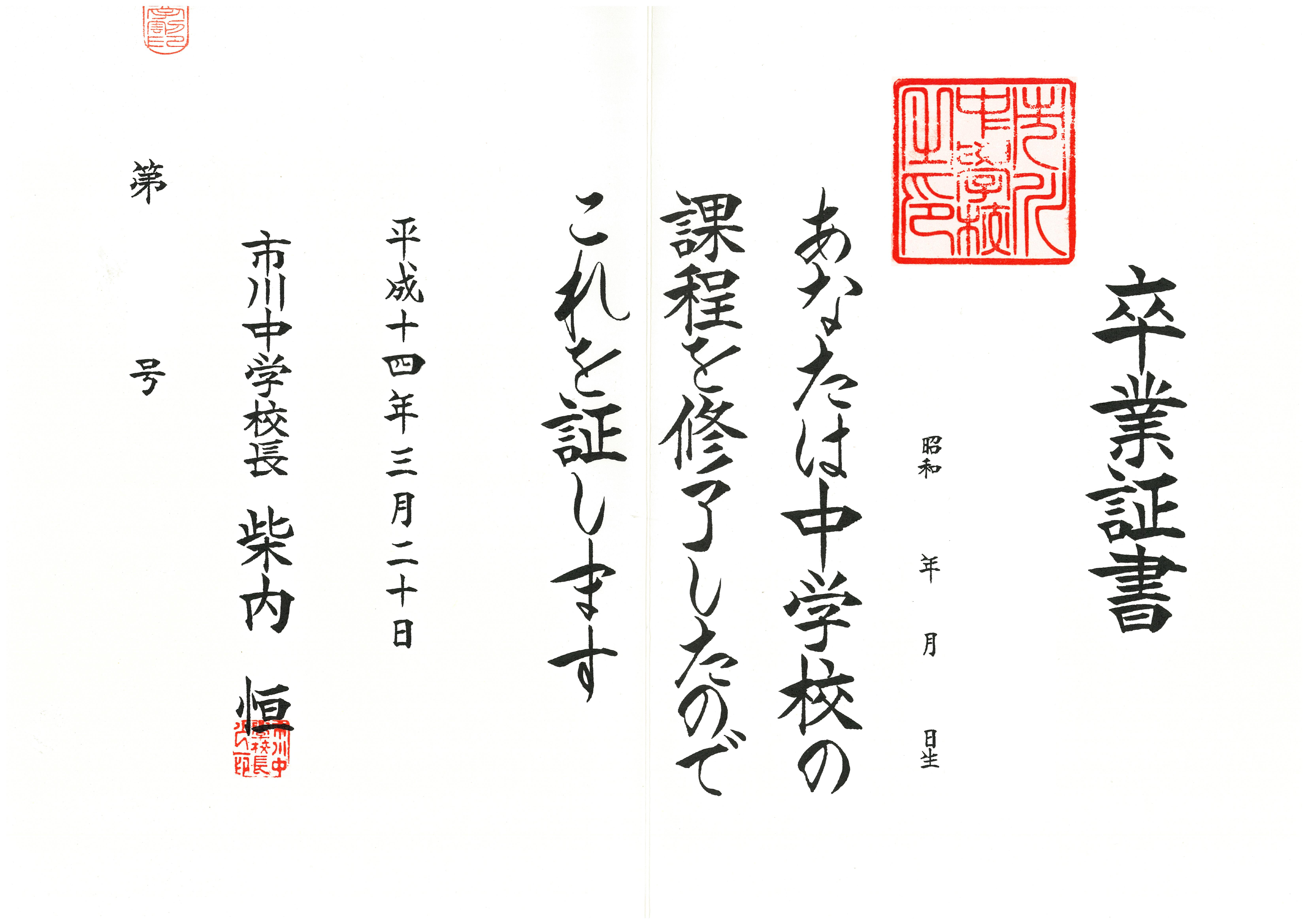 Diploma of graduation of junior high school (Middle school) in Japan.